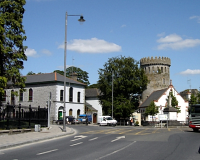 Gramscis cousin 11:14, 14 July 2006 (UTC)